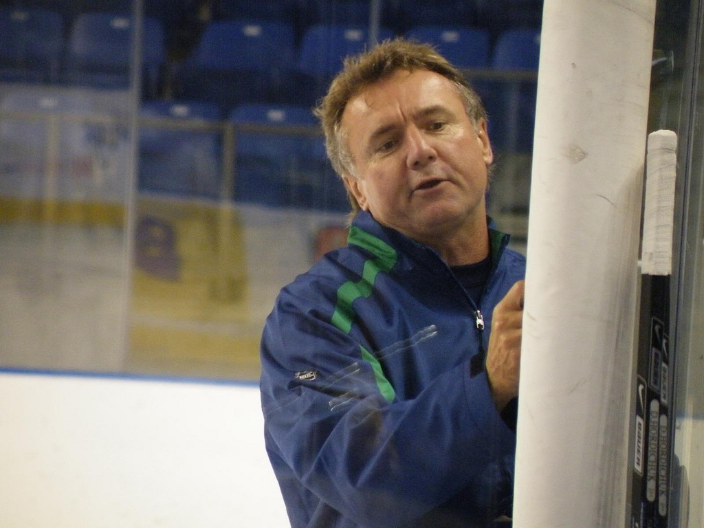 Rick Bowness, assistant coach of the Vancouver Canucks of the National Hockey League